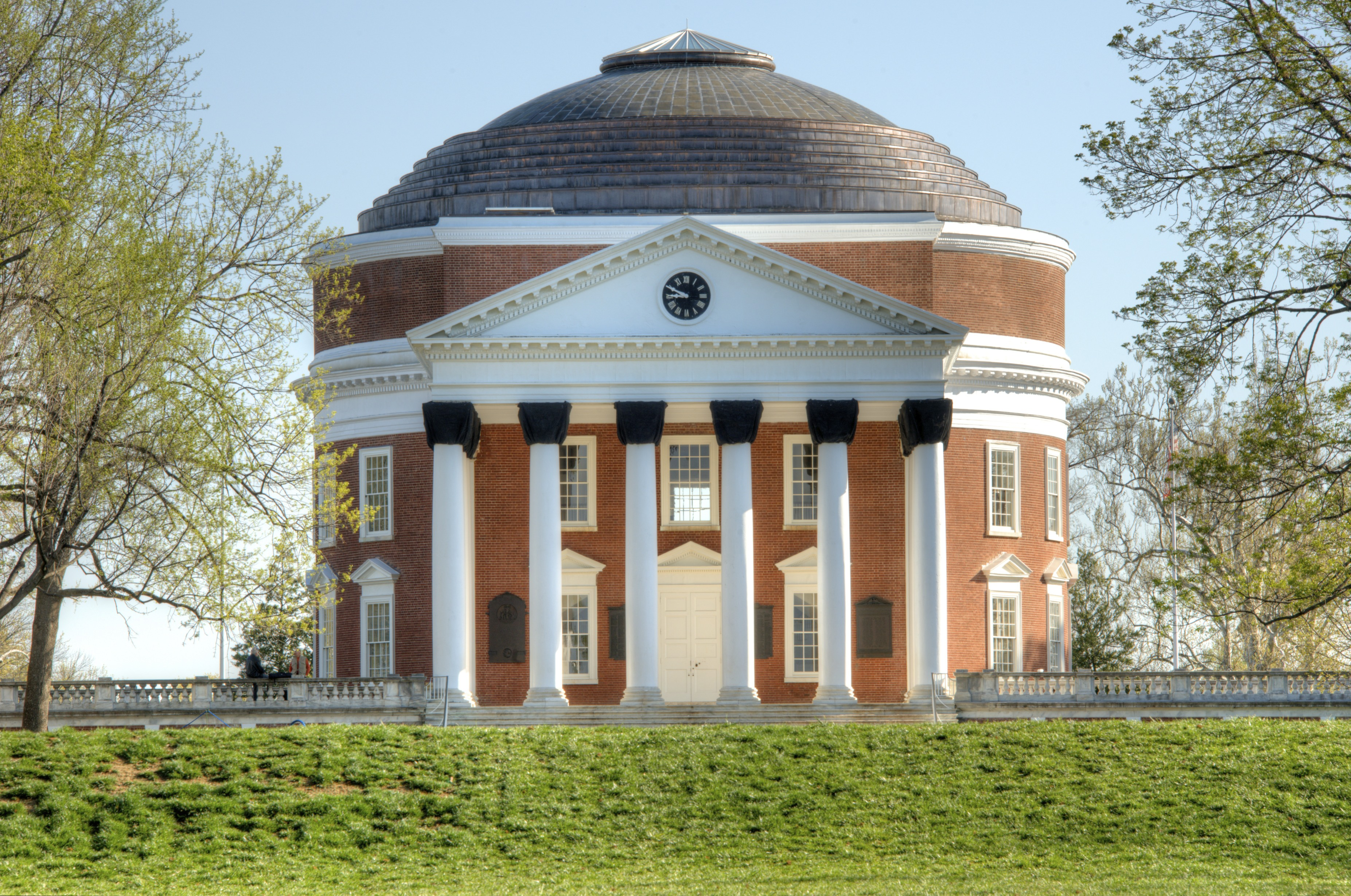 Jefferson used the detailed measurements of the Pantheon to guide the proportions of his Rotunda. The Pantheon's dome is 143 feet in diameter, while Jefferson's Rotunda is 77 feet, "being half that of the Pantheon and consequently one fourth in area, and one eighth in volume."